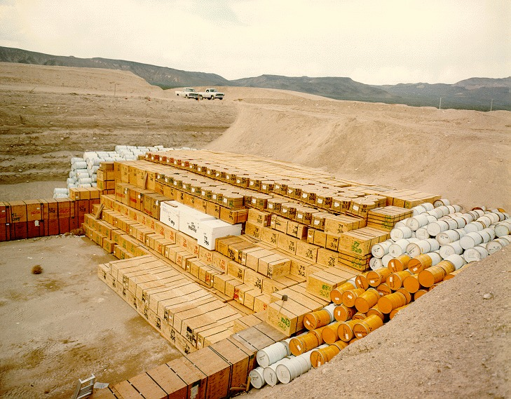 Nevada Test Site. Typical low-level radioactive waste storage pit.